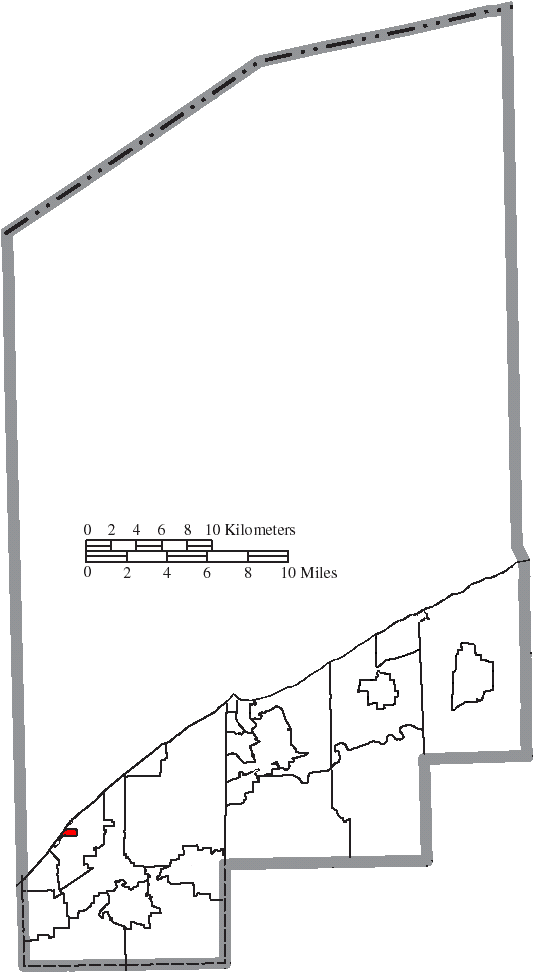 Map of the municipal and township boundaries of Lake County, Ohio, United States, as of the 2000 census, with the location of the village of Timberlake highlighted. Township borders are shown only in unincorporated areas in order to differentiate incorporated and unincorporated areas more clearly.